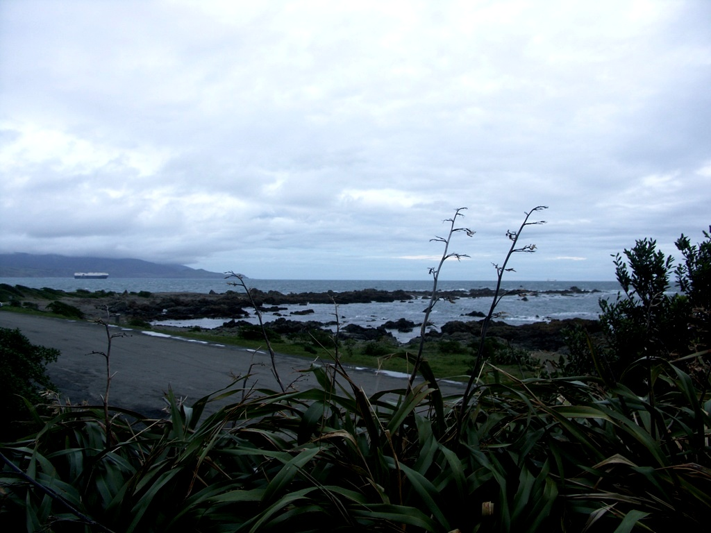 PrincessBayPICT9747.jpg - photo taken and uploaded by Paul Moss, Photographer, Artist, Paul Moss Photographer Artist NZ